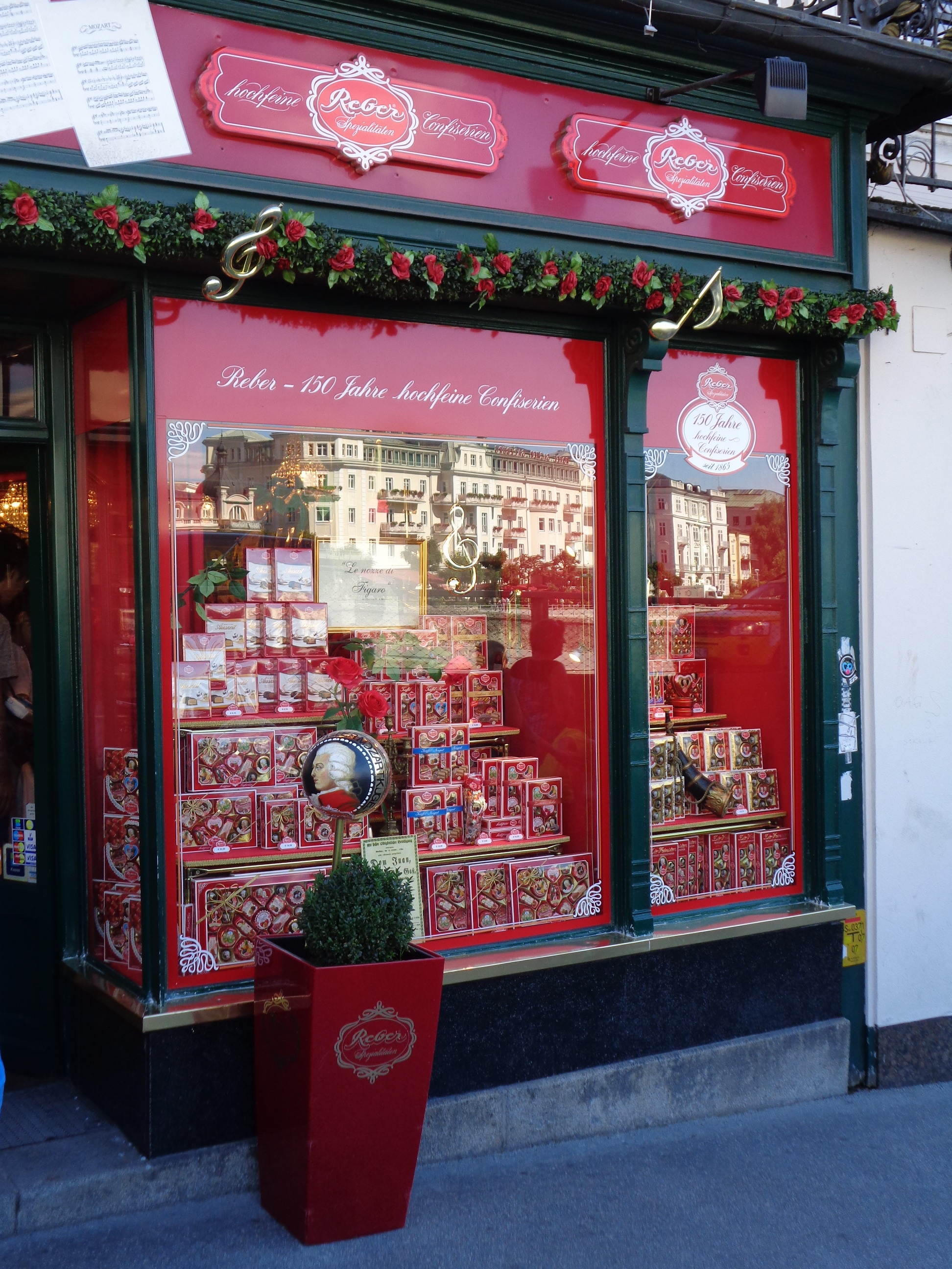 Reber shop with Mozartkugel in Salzburg, Austria - right side